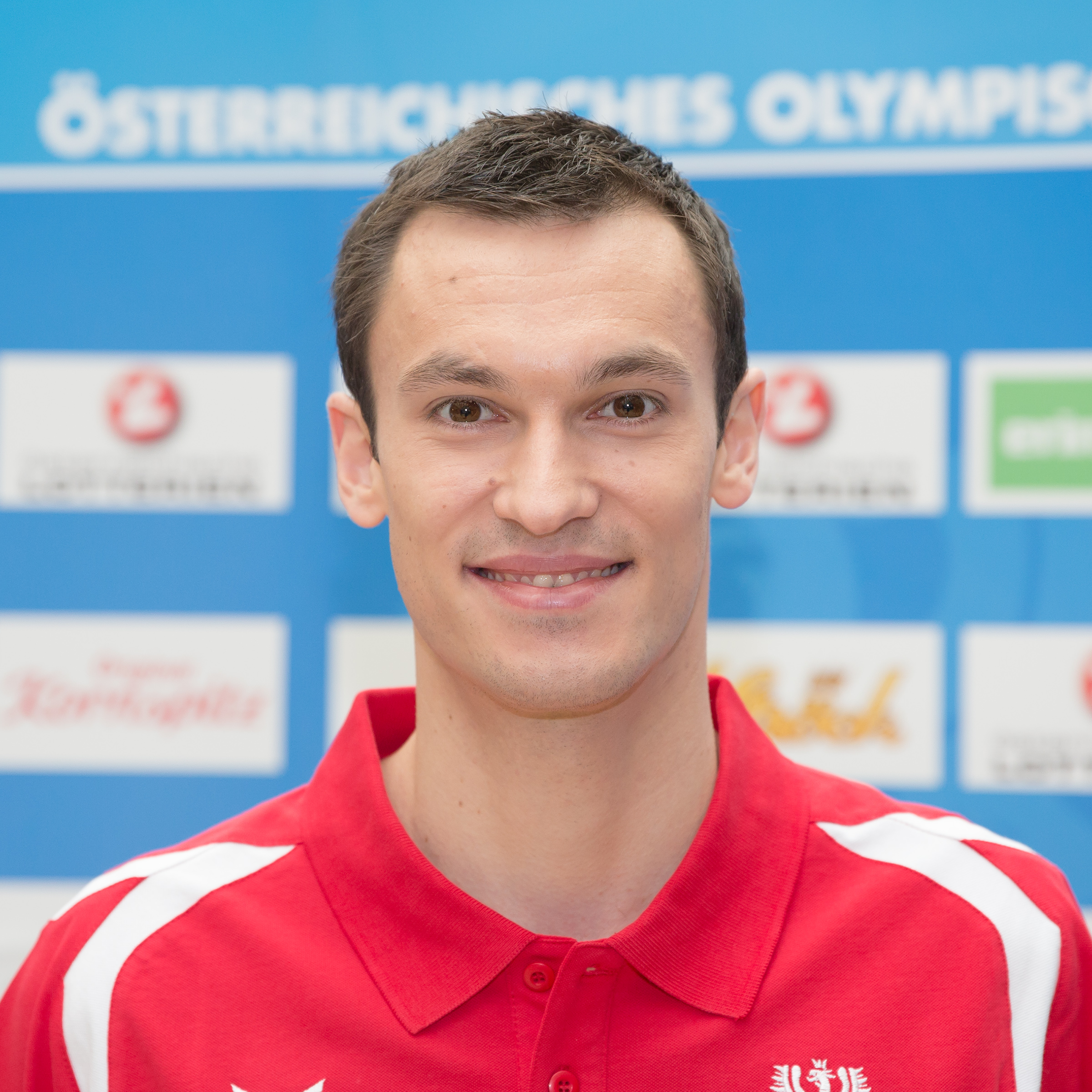 Stefan Fegerl at the hand-out of the Austrian teams official attire for the 2016 Summer Olympics (Marriott, Vienna).